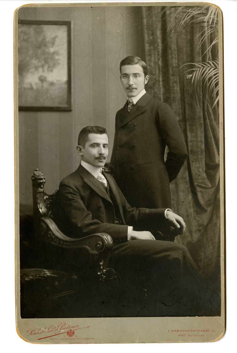 Stefan Zweig, standing, with his brother Alfred in Vienna, circa 1900.